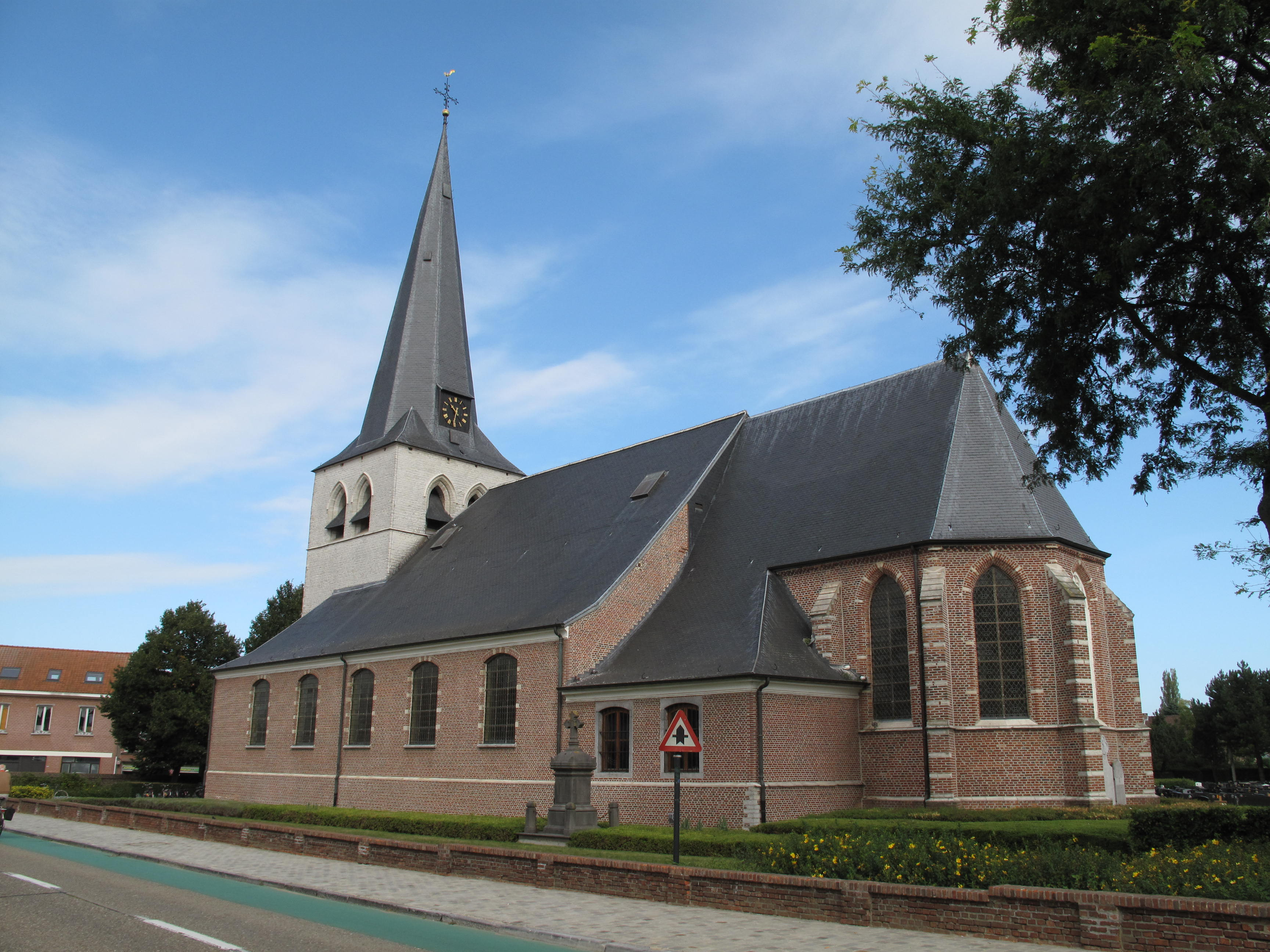 Olen, church